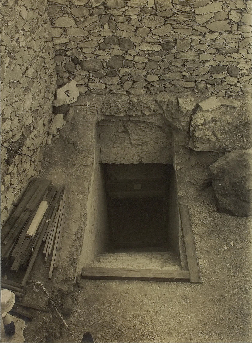 Harry Burton: Tutankhamun tomb photographs: a photographic record in 5 albums containing 490 original photographic prints ; representing the excavations of the tomb of Tutankhamun and its contents. Vol. 1